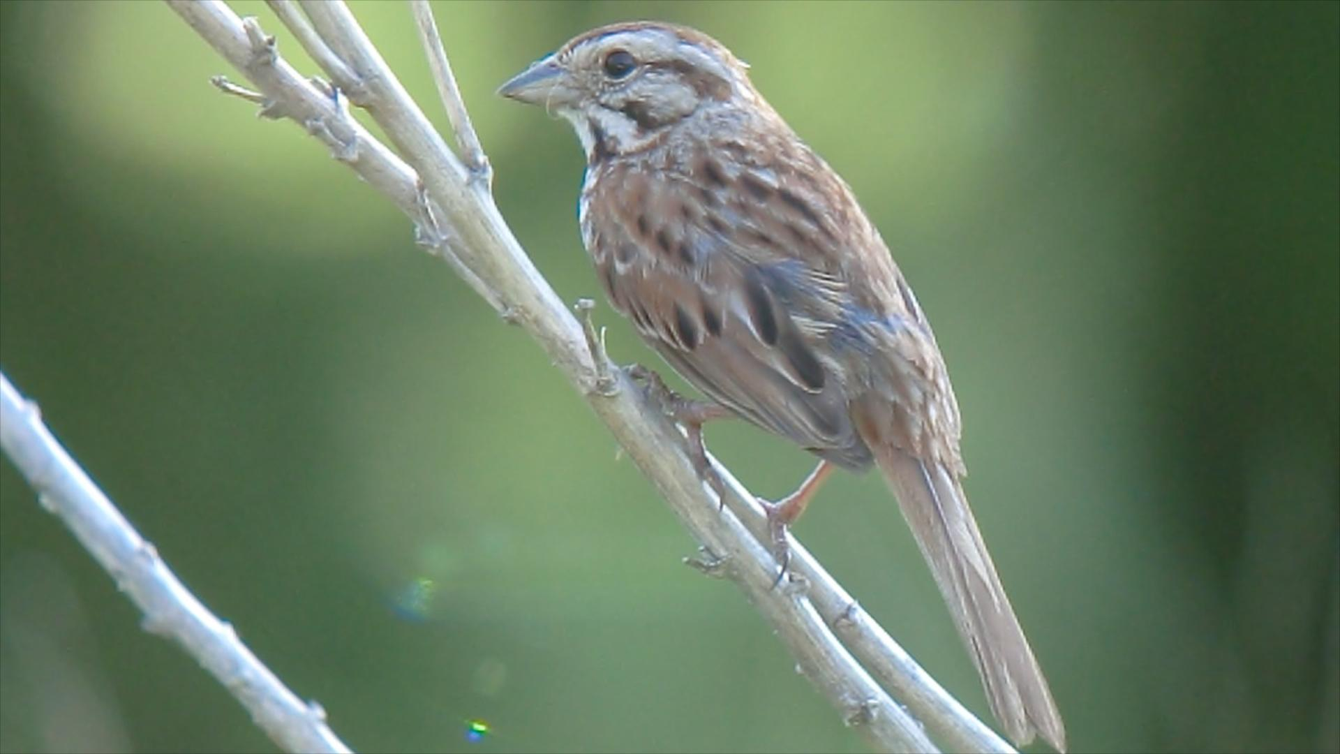 Forest Park in St. Louis MO on 6/4/11